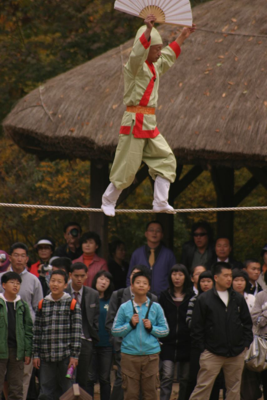 At the Korean folk village.